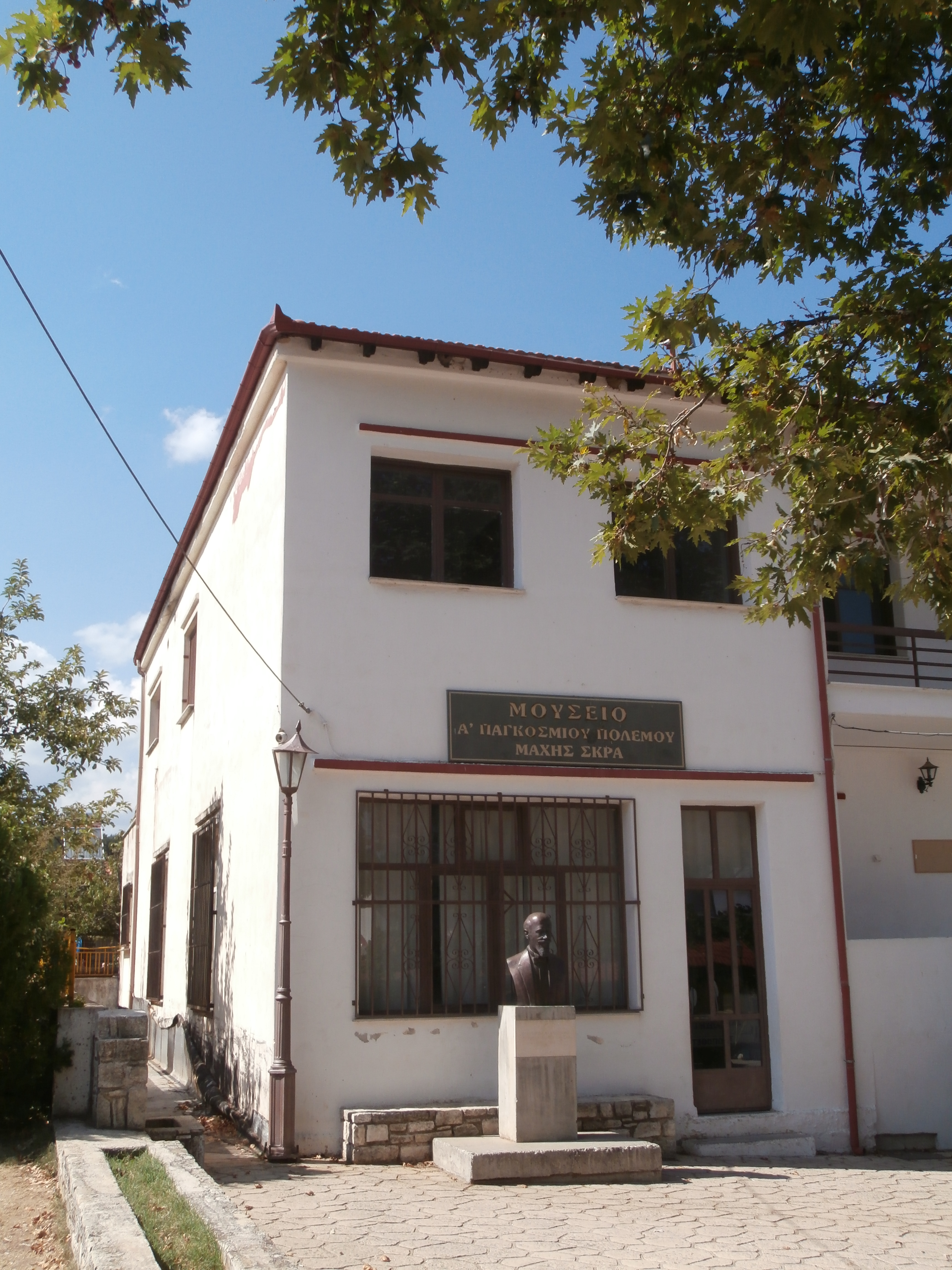 Skra battle WWI museum in Skra